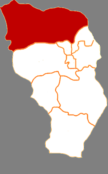 Locator map of Wuchuan County in Hohhot City, Inner Mongolia, China